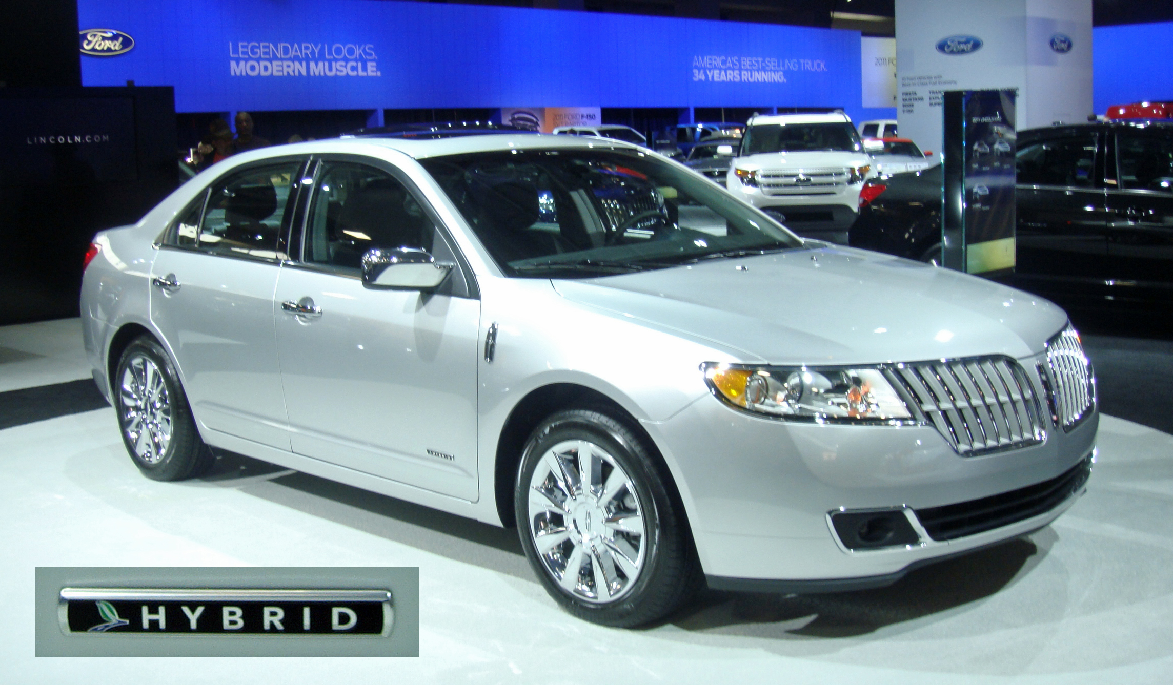 Lincoln MKZ Hybrid exhibited at the 2011 Washington D.C. Auto Show, inset shows hybrid badging